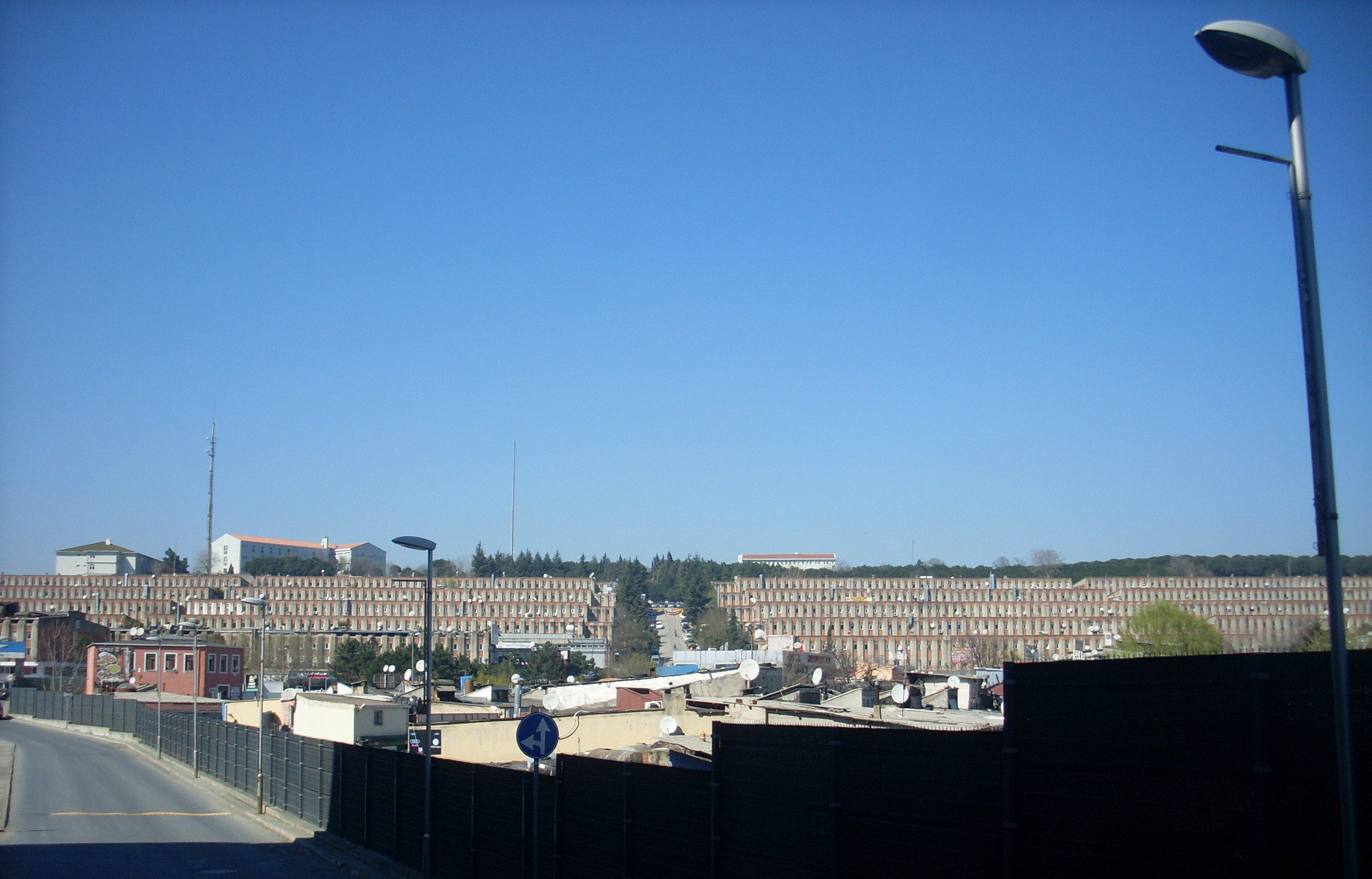 Atatürk Automobile Industry District, Maslak İstanbul